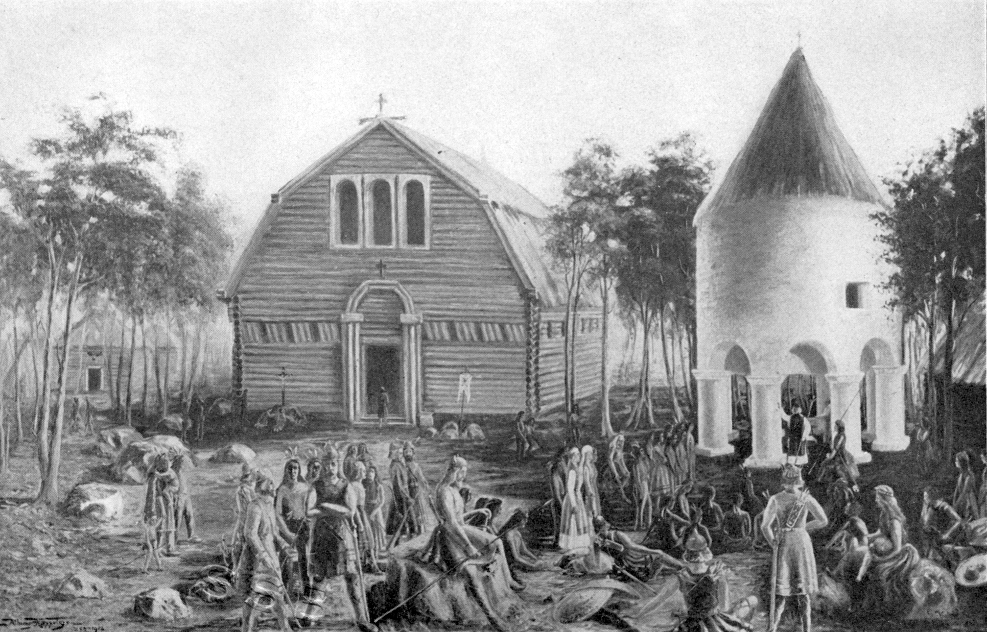 Reproduction of a painting by the Swedish-American artist Albinus Hasselgren, painted before 1908. Published in Prärieblomman 1912. Whereabouts not known. Depicting Scandinavian vikings and Native Americans celebrating the Holy Communion (?) 1127 in front of the Newport Tower.